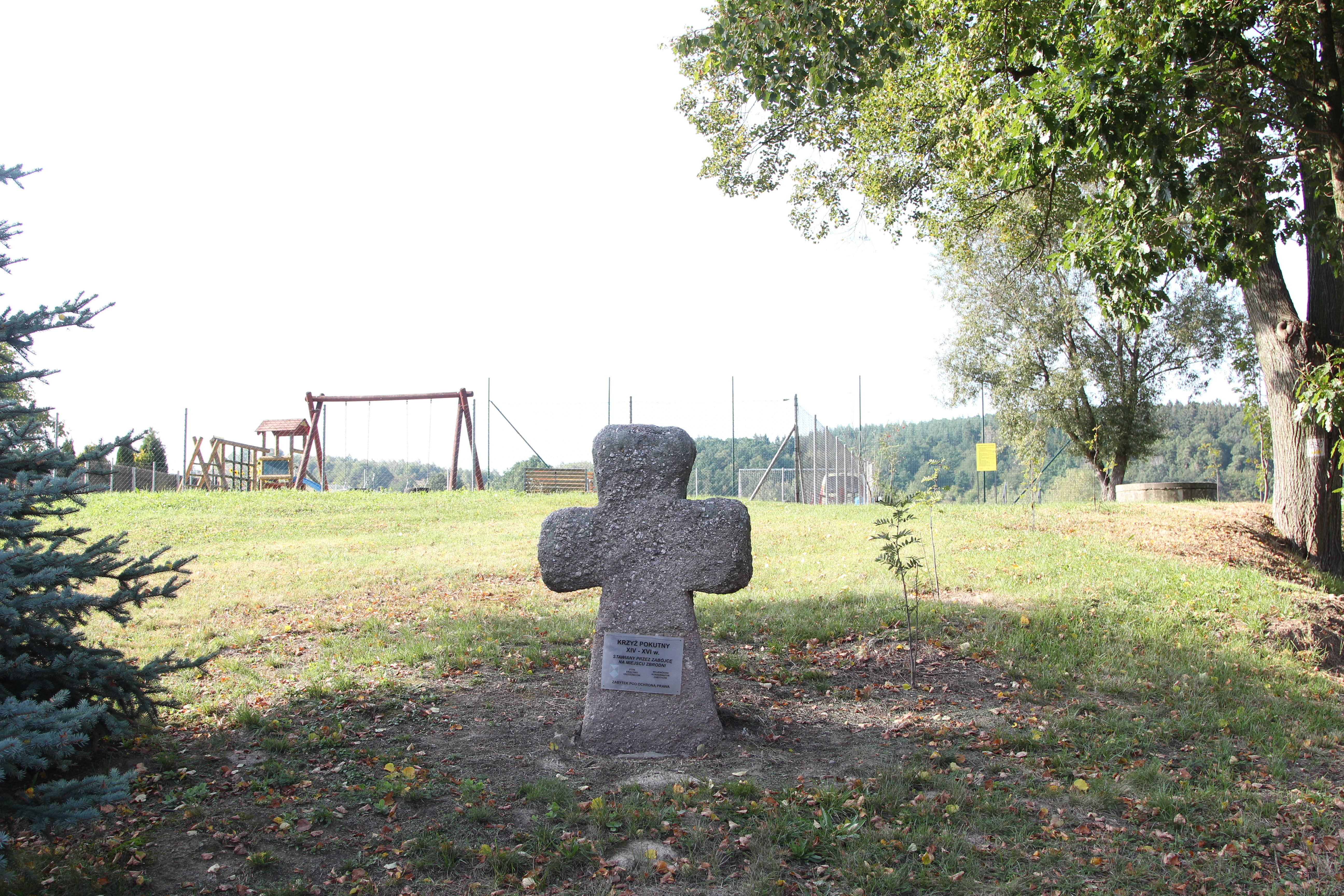 Stone cross in Pogorzała.